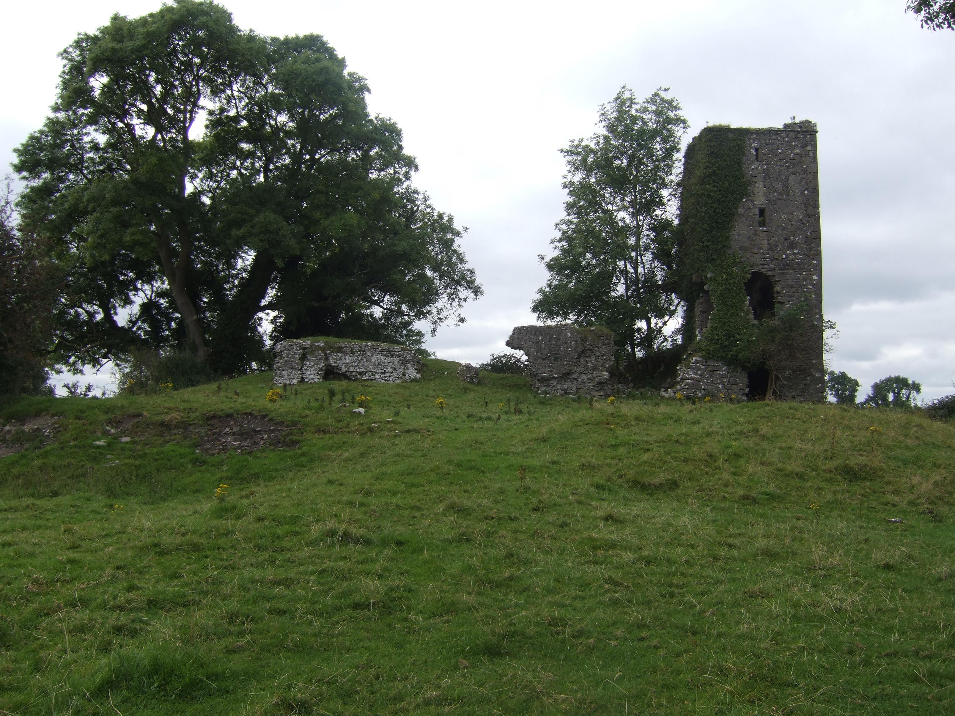 Coolamber Hall-House is Anglo-Norman in date and can be assigned to the early 13th century. Hall-houses consist of two-storey buildings with the entrance doorway on the first floor. The entrance was accessed via an external staircase of wood or stone. The main feature of the building was the large first floor hall which was open up to the roof. The ground floor was accessed via a trapdoor or internal staircase and was probably used as a storage area. Many hall-houses like that at Coolamber have been rebuilt or altered considerably. Summary Coolamber Hall-house consists of a two-storey structure with hour-storey adjoining service tower added-on. It is located on a circular platform c. 4m high and 40m in diameter. A late-medieval church is situated c 400m to the north-west. The platform is enclosed by the remains of a 1.60m thick and .35m high bawn wall that was built in straight sections. There is a small, rectangular, projecting mural tower on the south-west side with an original 3m wide ramped entrance through the south-east side. The condition of the site makes it difficult to determine whether the bawn and mural tower are contemporary with the hall-house and service tower. The hall-house has the remains of a barrel-vault at its northern end at ground floor level. The south end is grass-covered and possibly covers two other barrel-vaults. A doorway in the north-east corner gives access to the tower. A relieving arch, located directly above the barrel-vault of te hall suggests that the service tower may be a later addition to the hall. Directions From Edgeworthstown take the N55 towards Granard. After 400m take a right turn onto the R395 towards Castlepollard. The takes a sharp right after 7km and 3km further on Lismacaffry Village is reached. Take the right turn at the crossroads in the village and after 1km take the first right. Pass a small cemetery before reaching the hall-house. Park sensibly. On Private Property.